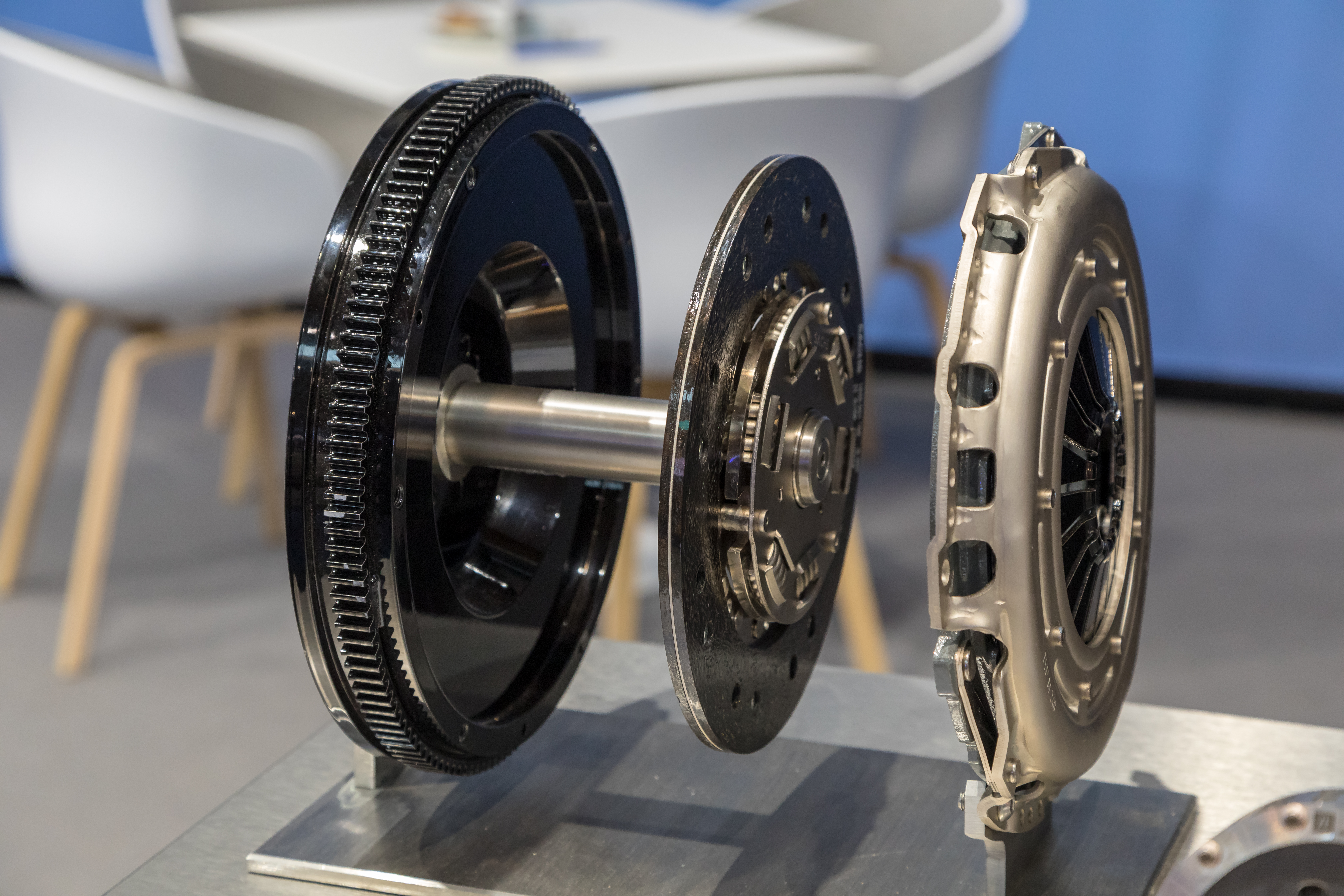 Tuning World Bodensee 2018